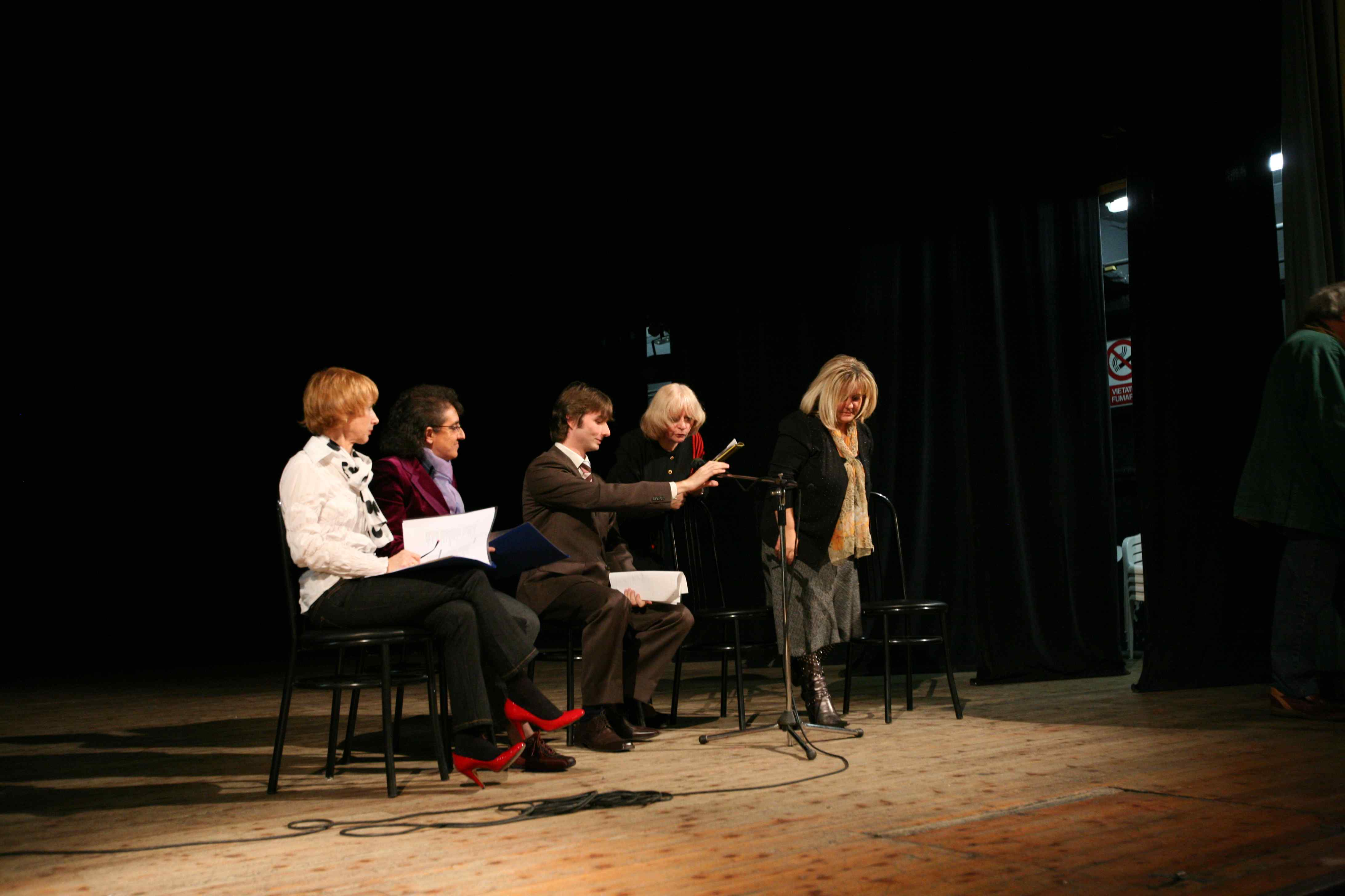 The proclamation of The Manifesto of IMMAGINE&POESIA, Torino - Alfa Teatro, November 9, 2007